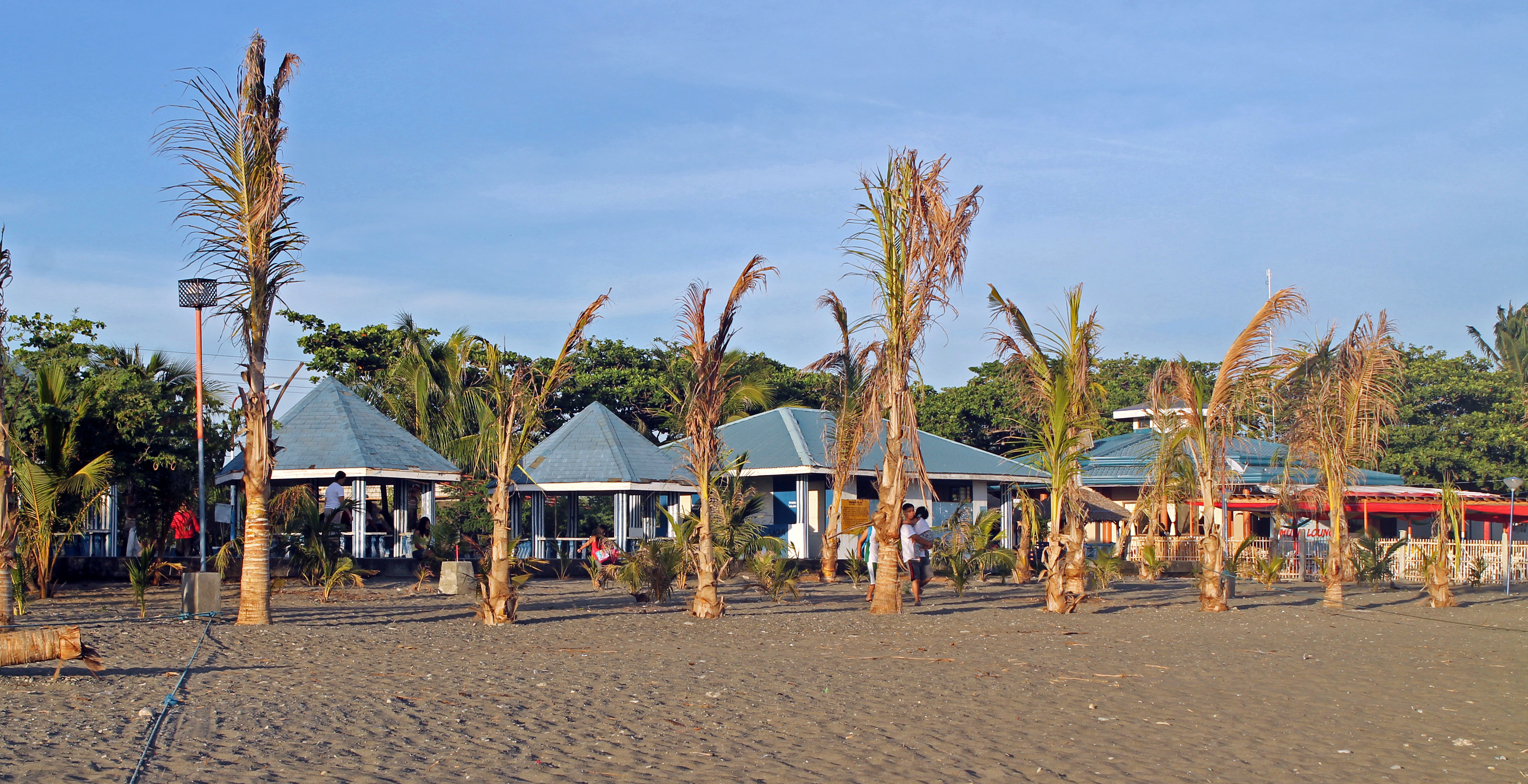 Aroma beach in San Jose, Occidental Mindoro